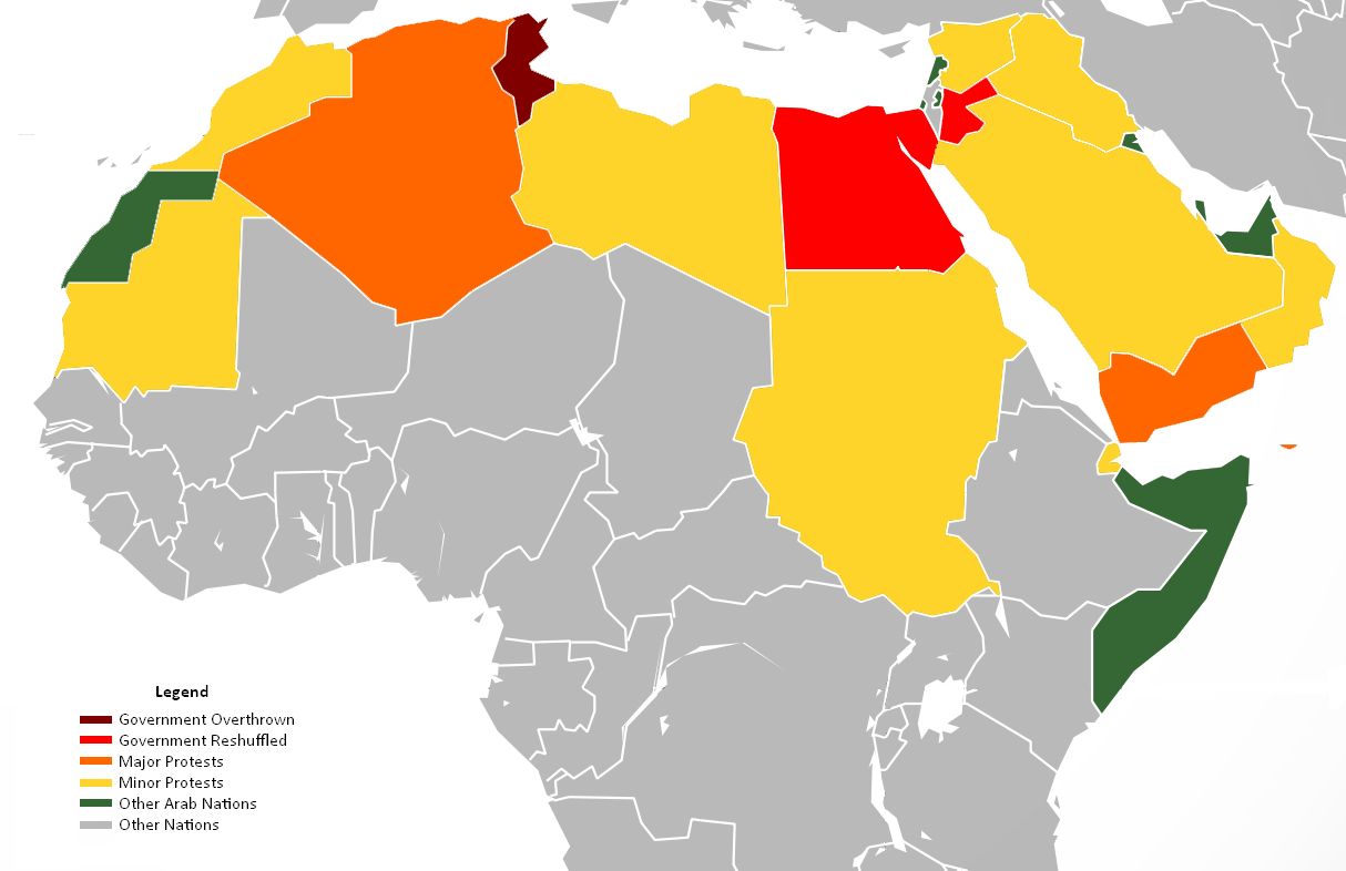 Map of the Arab World color coded to indicate level of civil unrest and outcome.